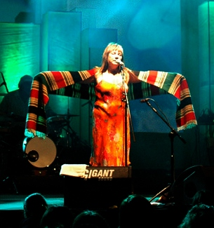 Mari Boine peforming in Warszawa, Poland in September 2007